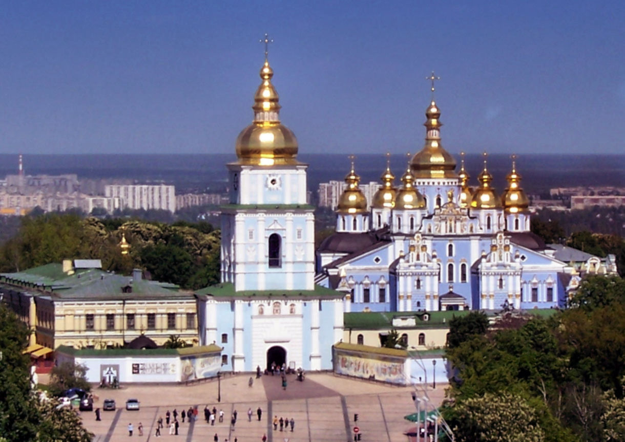 View of the St. Michaels Golden-Domed Cathedral in Kiev from the St. Sophia Cathedral Belltower.